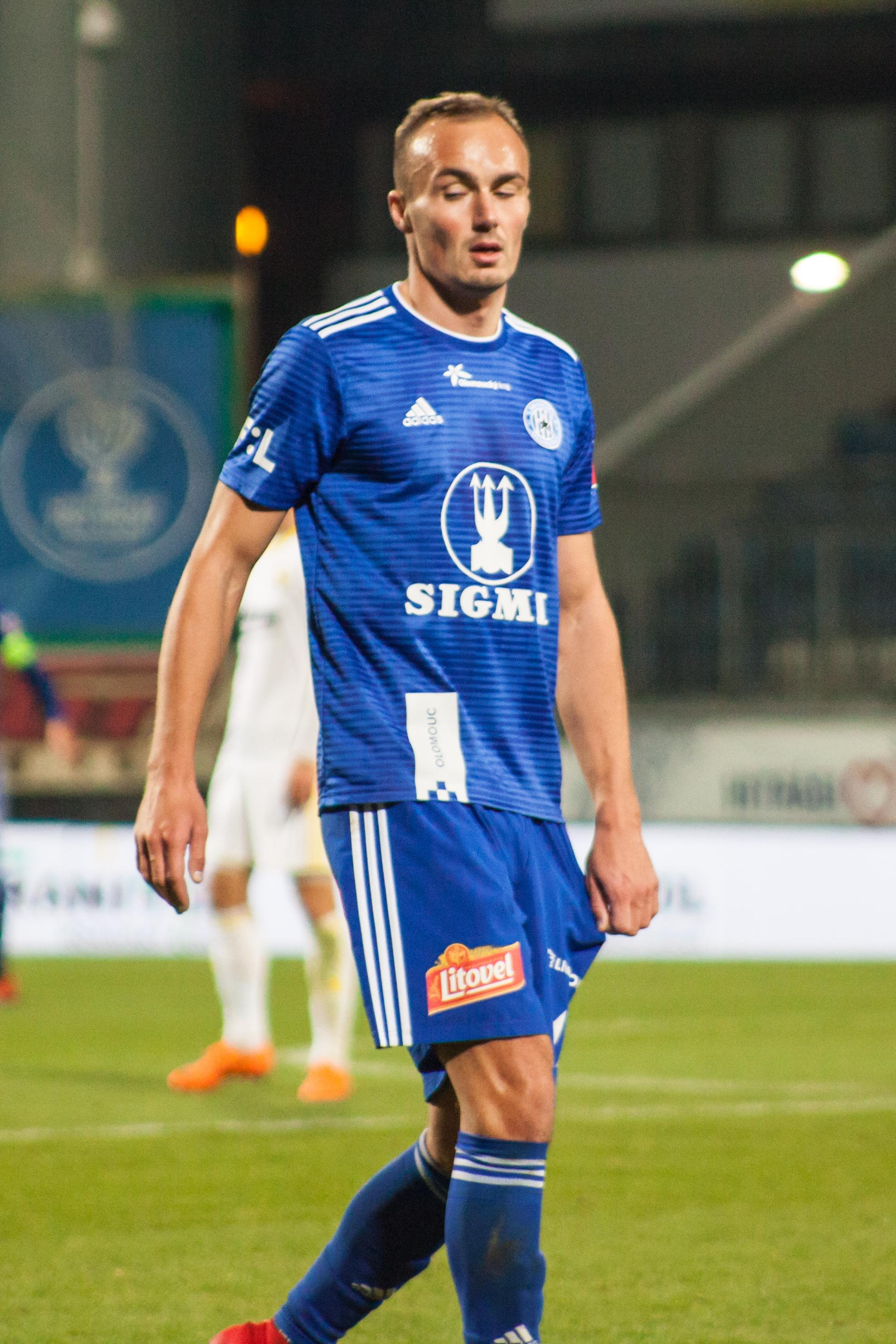 Pavel Dvořák At Czech cup (MOL Cup) match SK Sigma Olomouc-FC Fastav Zlín played on 15 November 2018